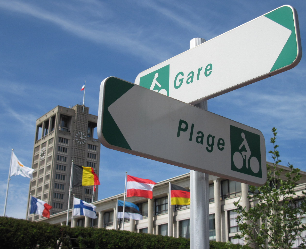 Cycling in Normandy August 2009